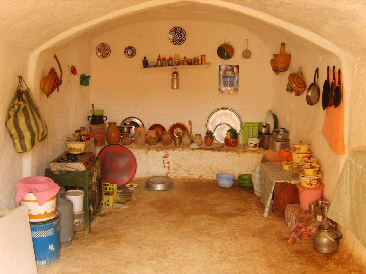 Kitchen of a troglodytic Berber house (Matmata, Tunisia).